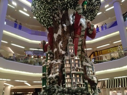 The Crystal Court portion of the South Coast Plaza in Costa Mesa